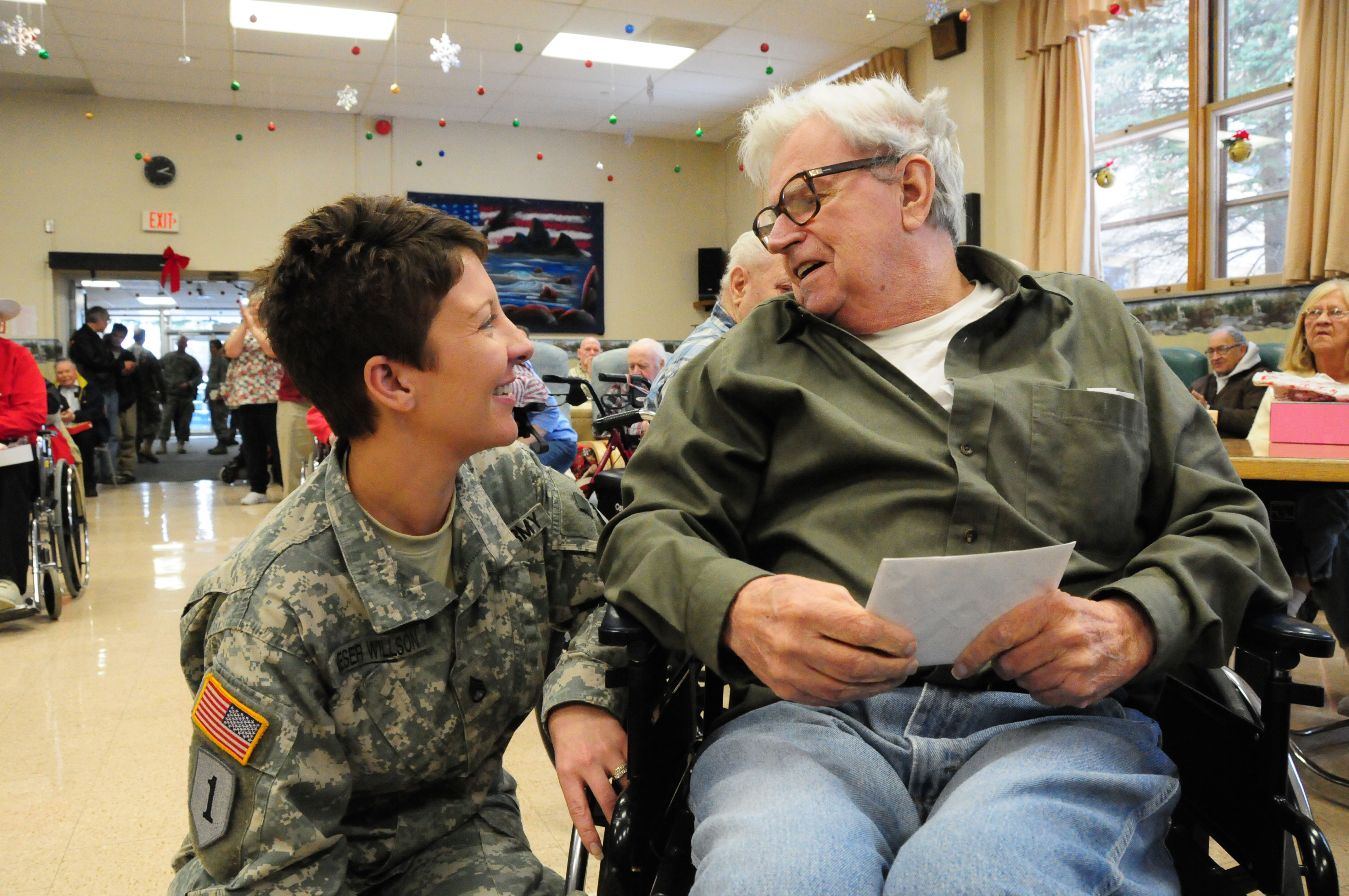 U.S. Army Staff Sgt. Amy Wieser Willson (left), with the 231st Brigade Support Battalion, North Dakota National Guard, visits with a resident of the North Dakota Veterans Home in Lisbon, N.D., during the annual Christmas party on Dec. 15, 2010.